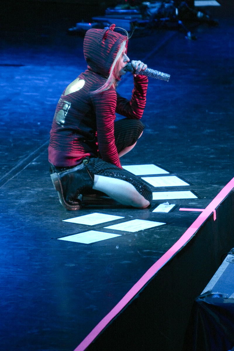 Avril Lavigne "The Best Damn Tour", Beijing Wukesong Arena, October 2008